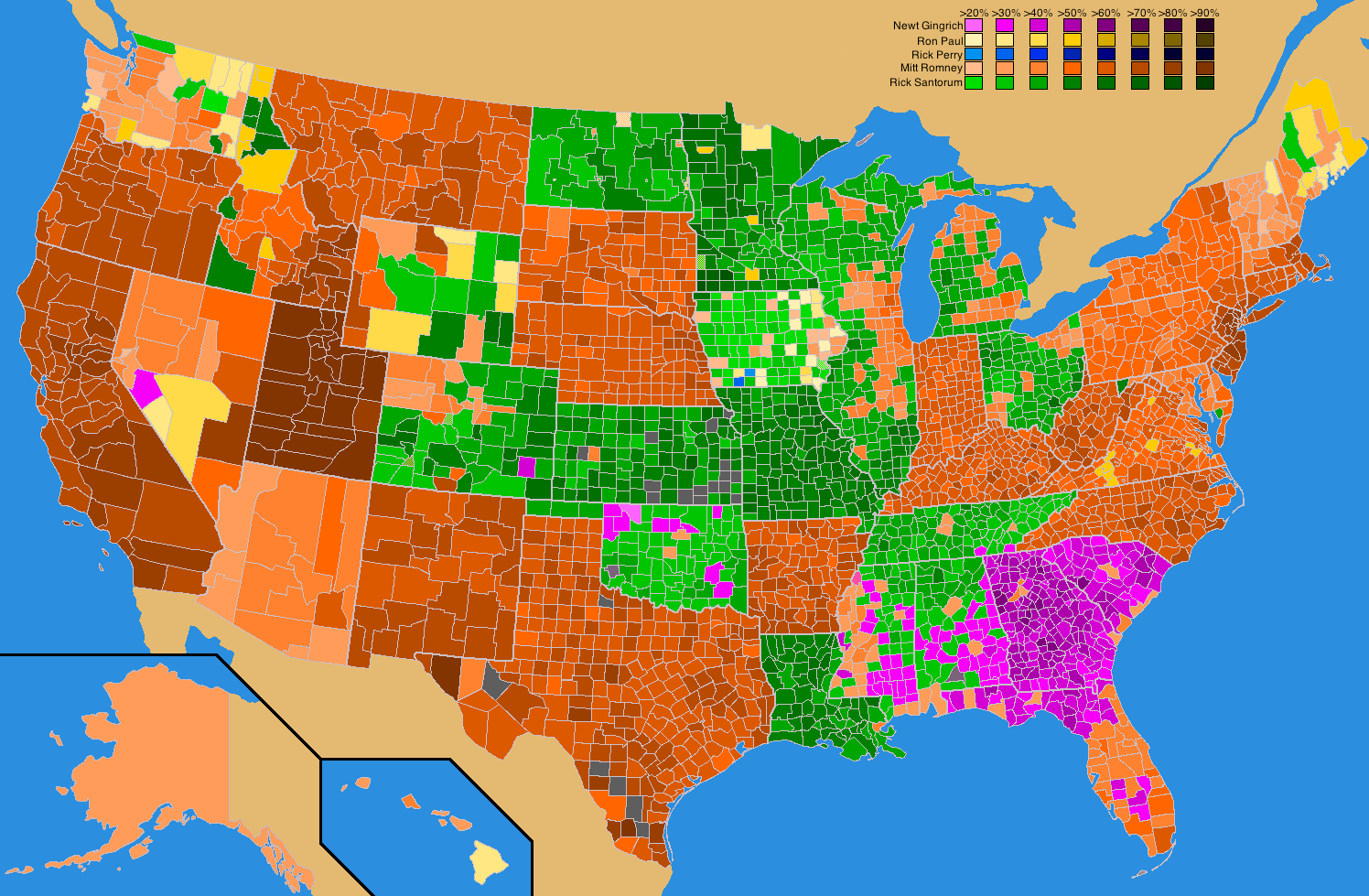 Republican Party presidential primaries results by county (percentages), 2012